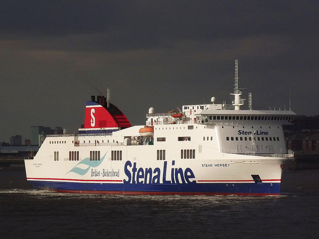 Arrival at Birkenhead